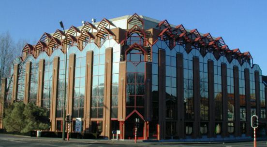 The Secretariat of the Energy Charter located in Woluwe-Saint-Lambert, Brussels.